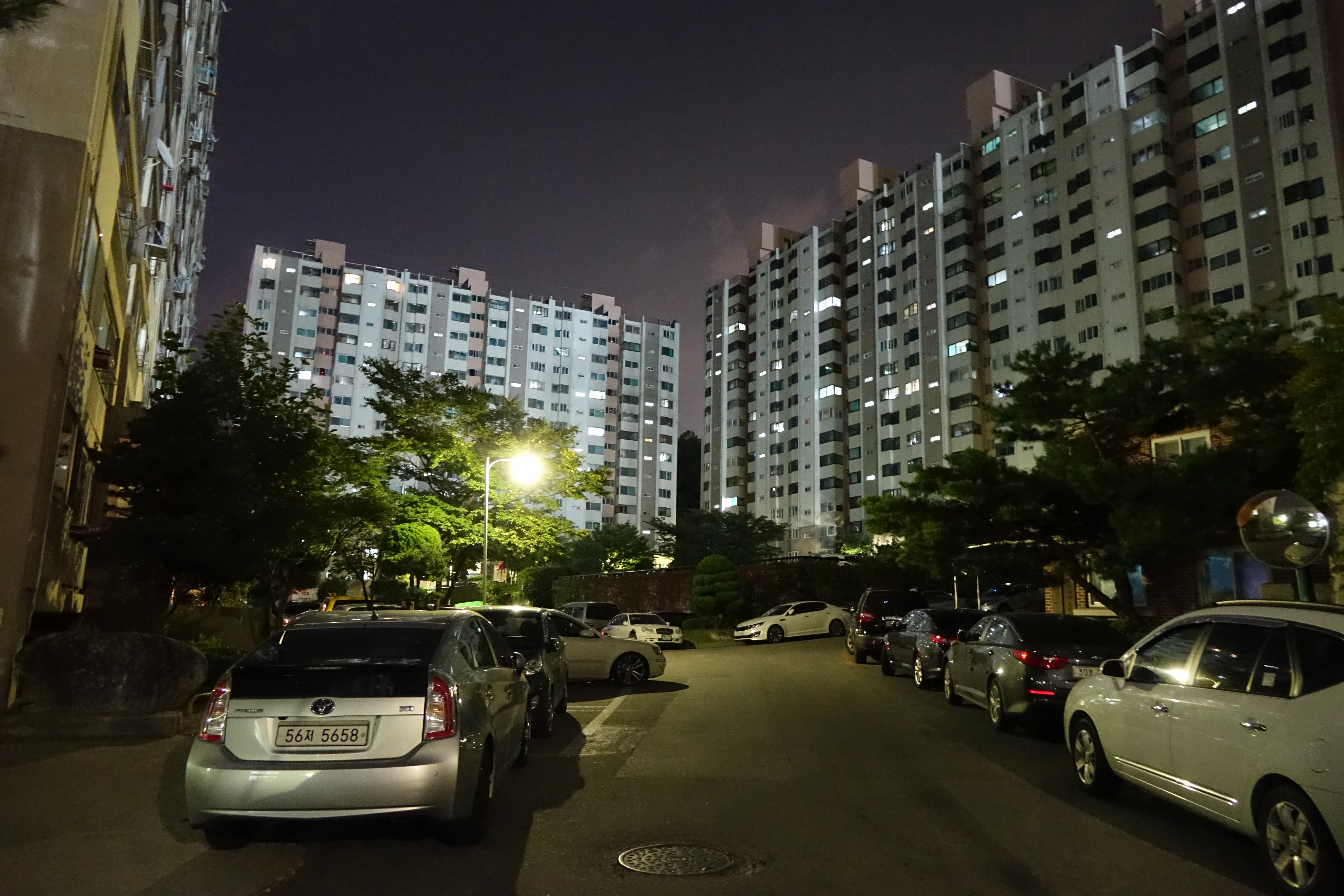 SONY DSC-RX10. Choe Kwangmo.